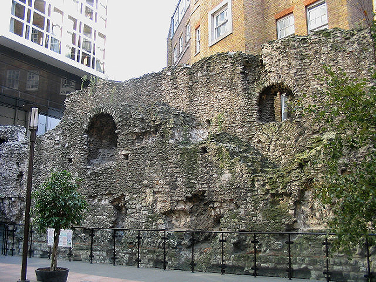 A surviving fragment of the original 3rd-century Roman London Wall, behind Tower Hill Station.